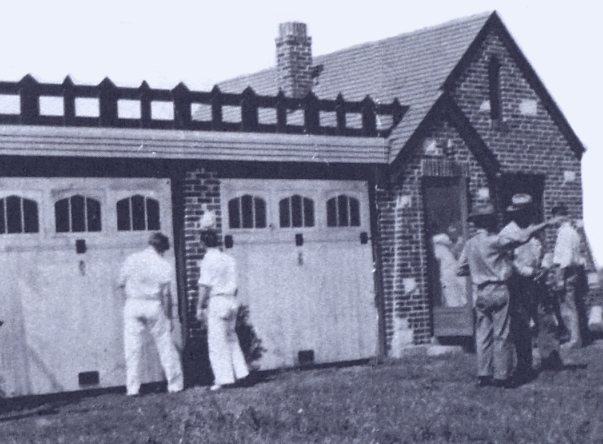 snapshot at motel after shootout, Platte City, MO, July 1933